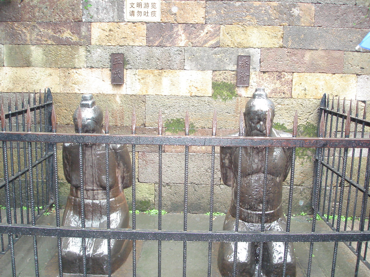 Statues of Qin Hui (right, 秦檜 or 秦桧) and Lady Wang (left, 王氏) The story of Youtiao. Statue in Hangzhou, China.